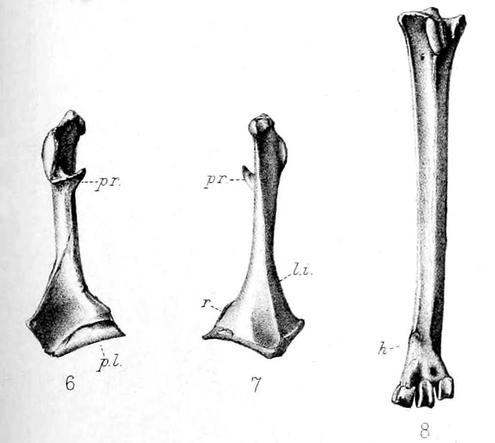 Nycticorax mauritianus subfossils.